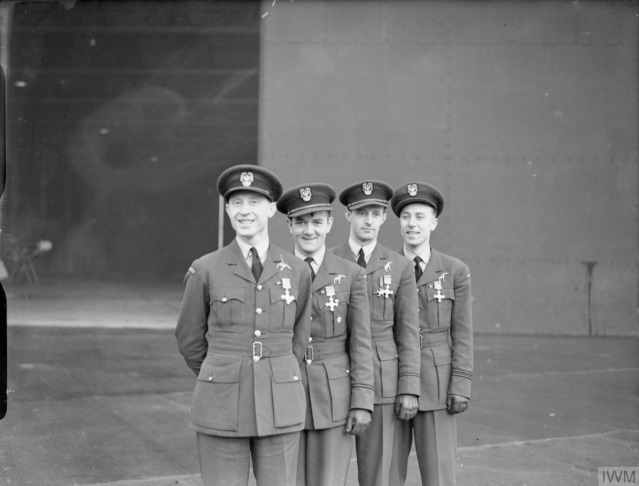 The first four Polish recipients of the Distinguished Flying Cross No 303 (Polish) Squadron RAF, wearing their awards after a presentation ceremony by Air Marshal W Sholto-Douglas at Leconfield, Yorkshire. Left to right: Flying Officer Witold Urbanowicz, Pilot Officer Jan Zumbach, Pilot Officer Mirosław Ferić and Flying Officer Zdzisław Henneberg